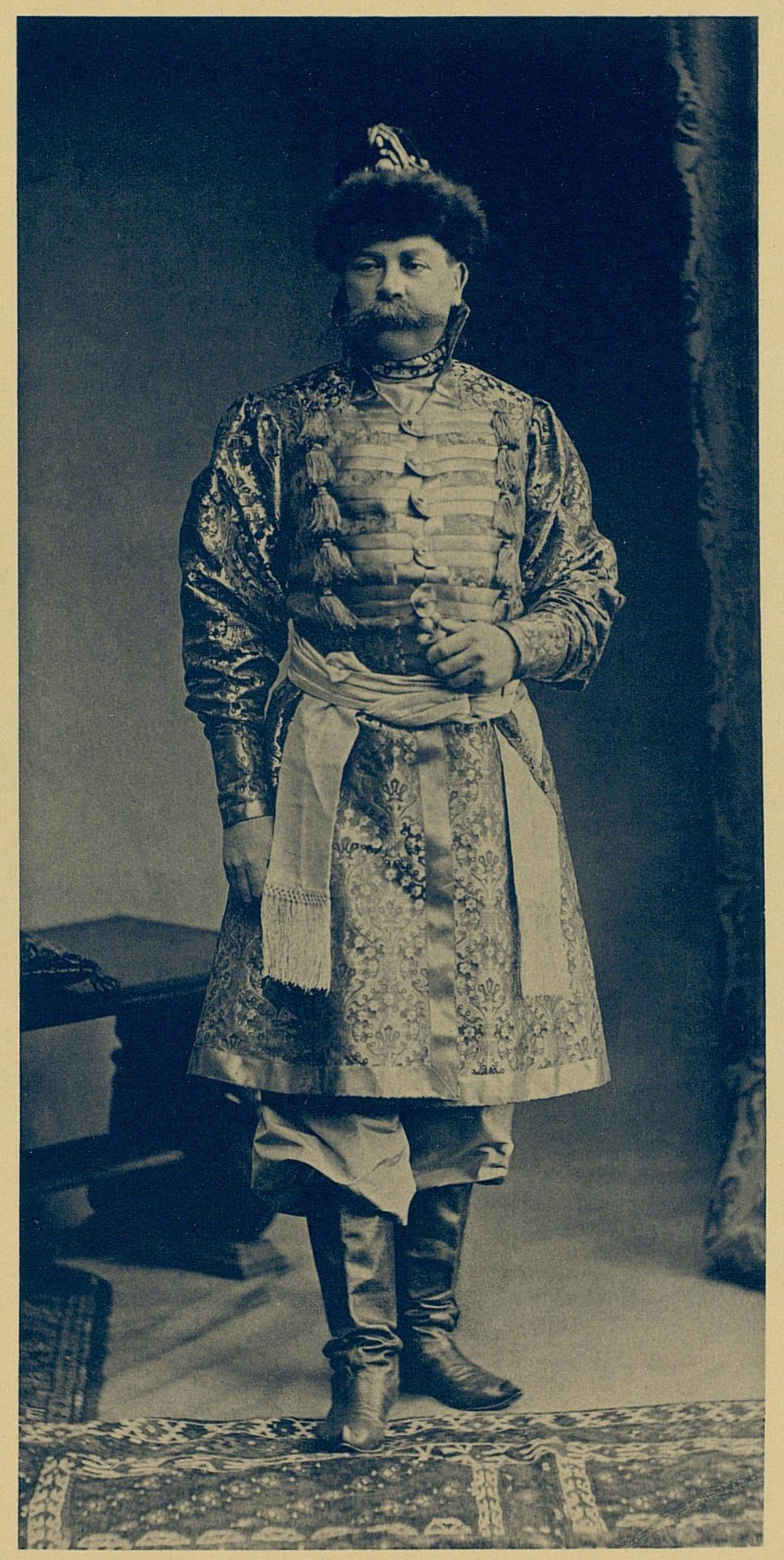 Colonel Eugene Ivanovich Bernov